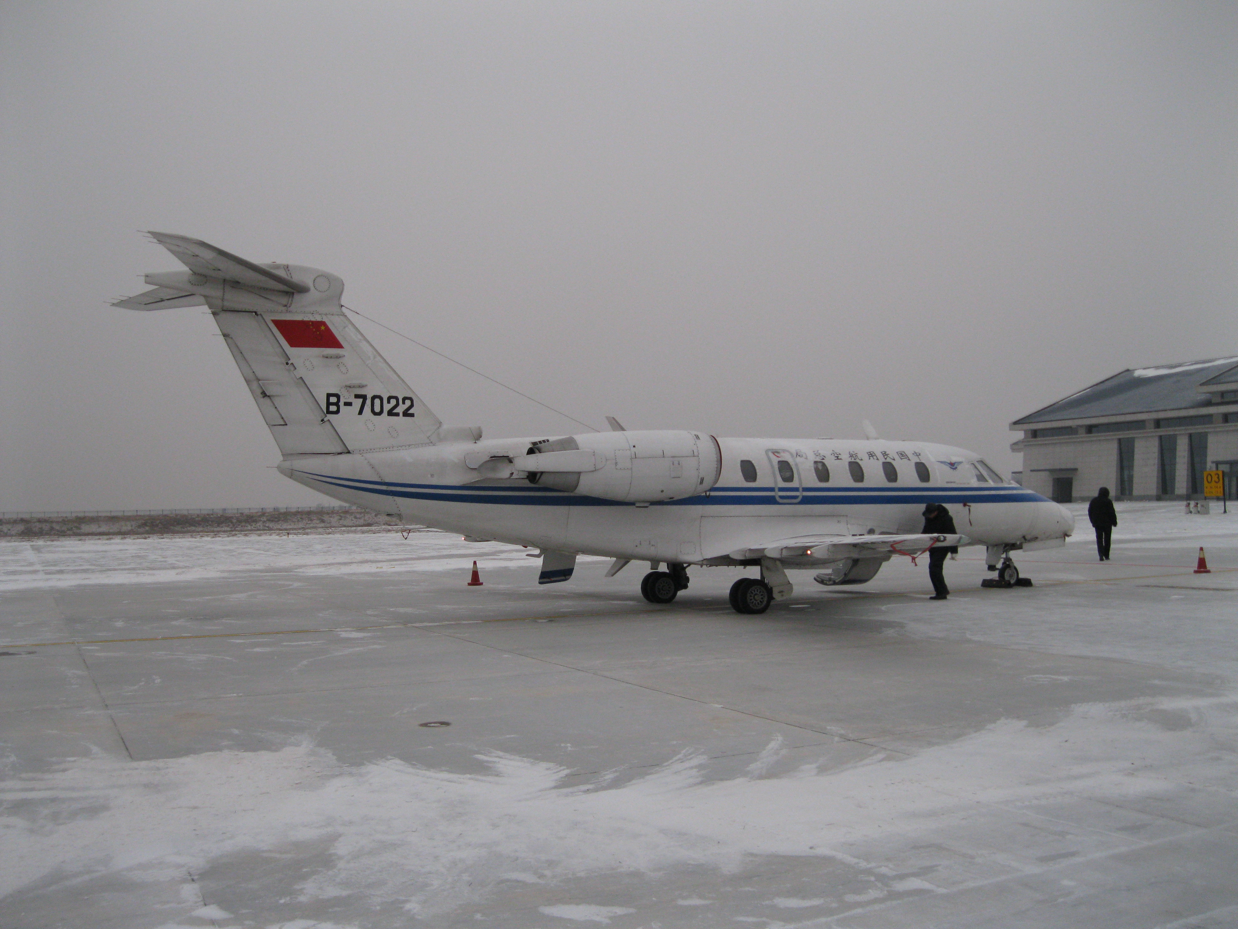 CAAC - Civil Aviation Administration Of China This photo was took in GYU/ZLGY, China. This is a very remote small airport. The Cessna was likely preparing a flight inspection mission.